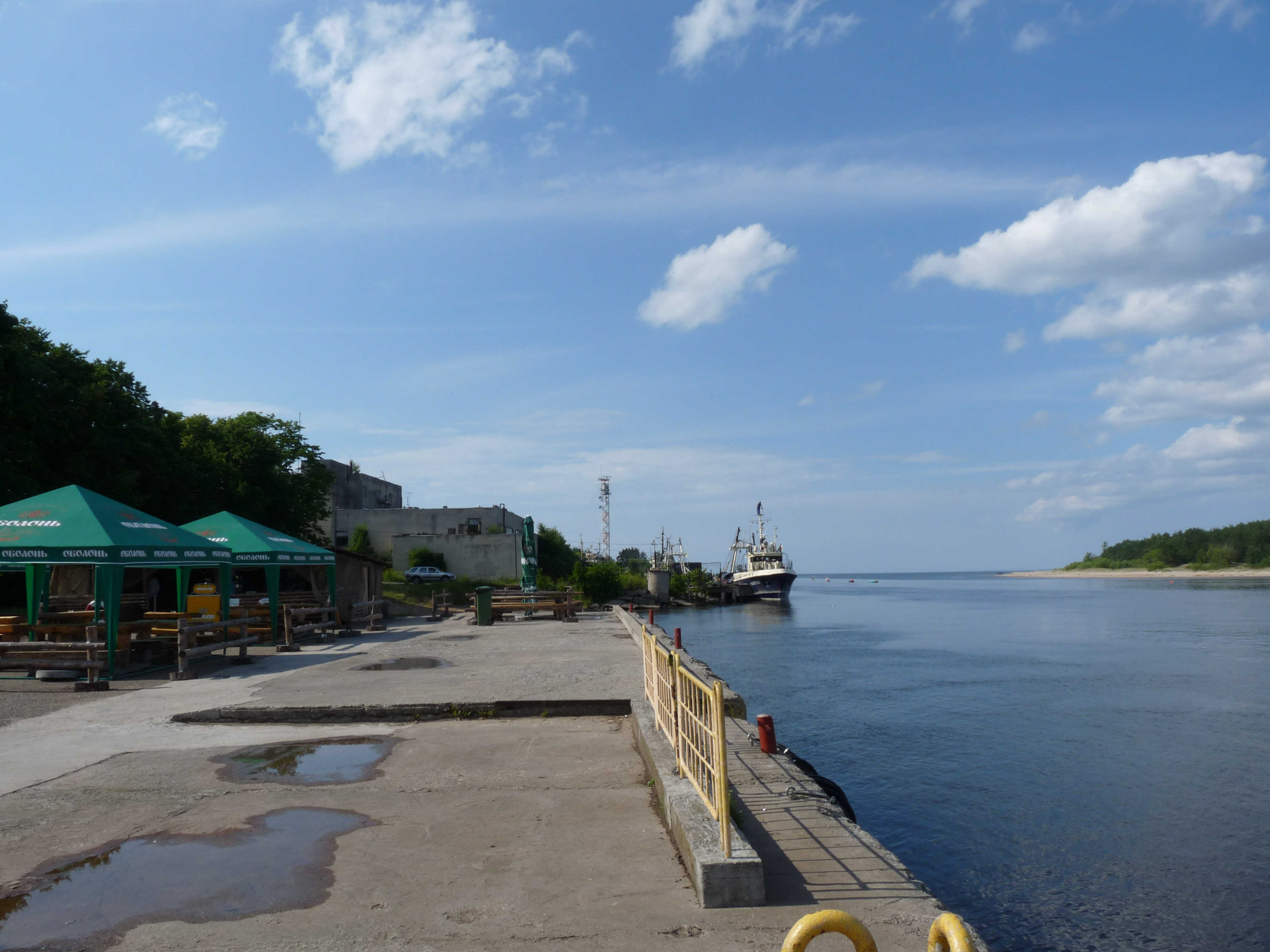 An internal board between Estonia and Russia